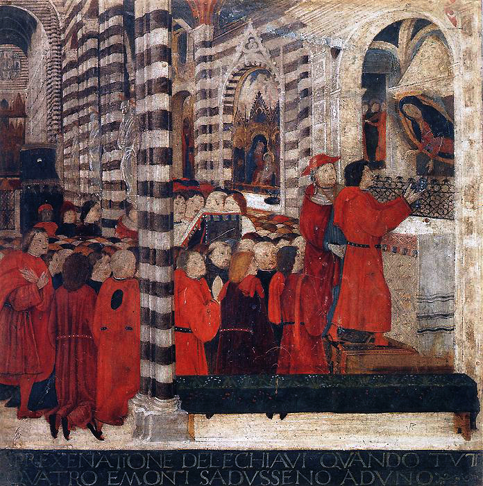 Siena_Offering_of_the_Keys, Unknown Master, 1482